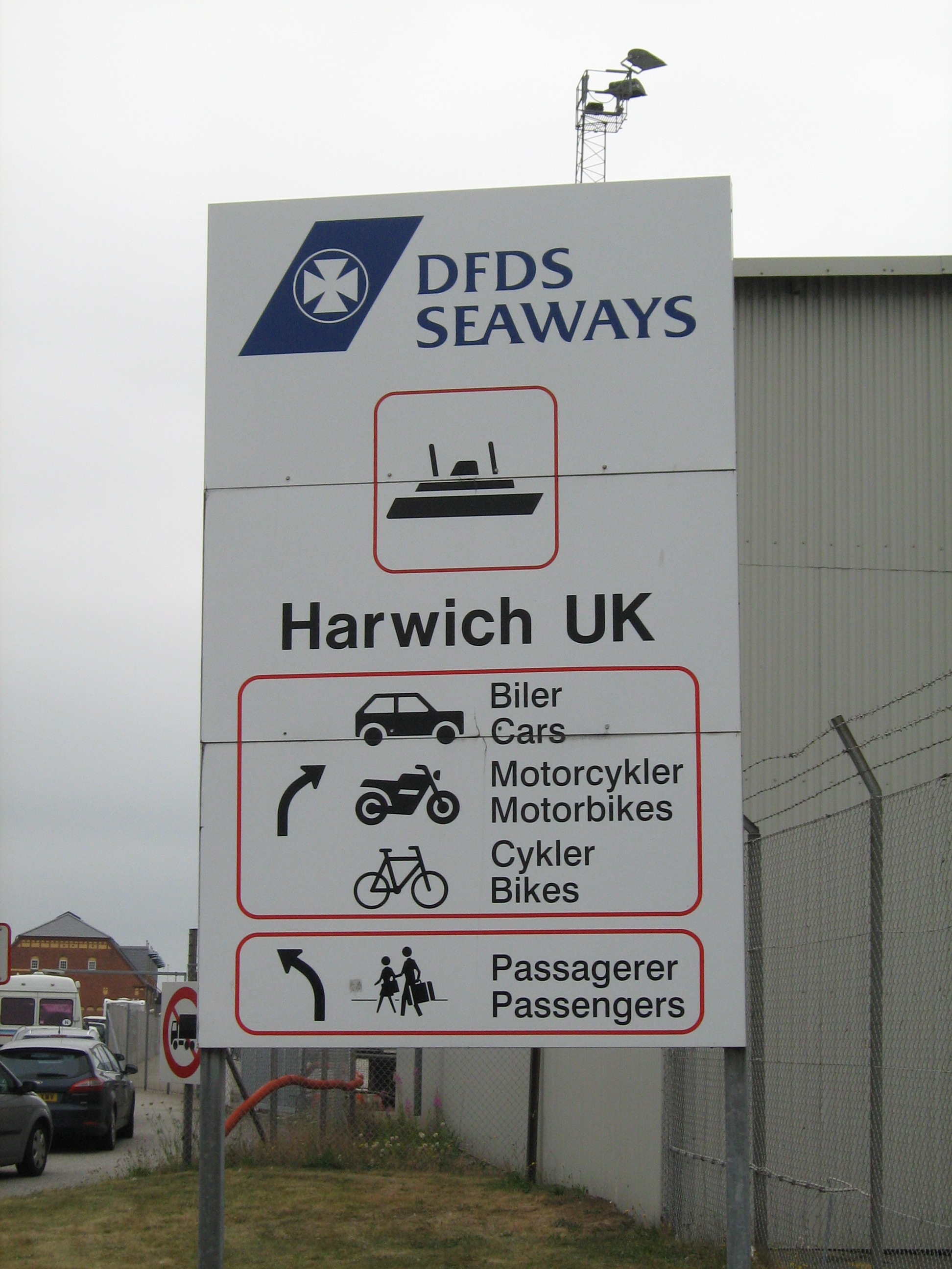 DFDS Seaways sign in the terminal in Esbjerg, Denmark. July 5, 2011.